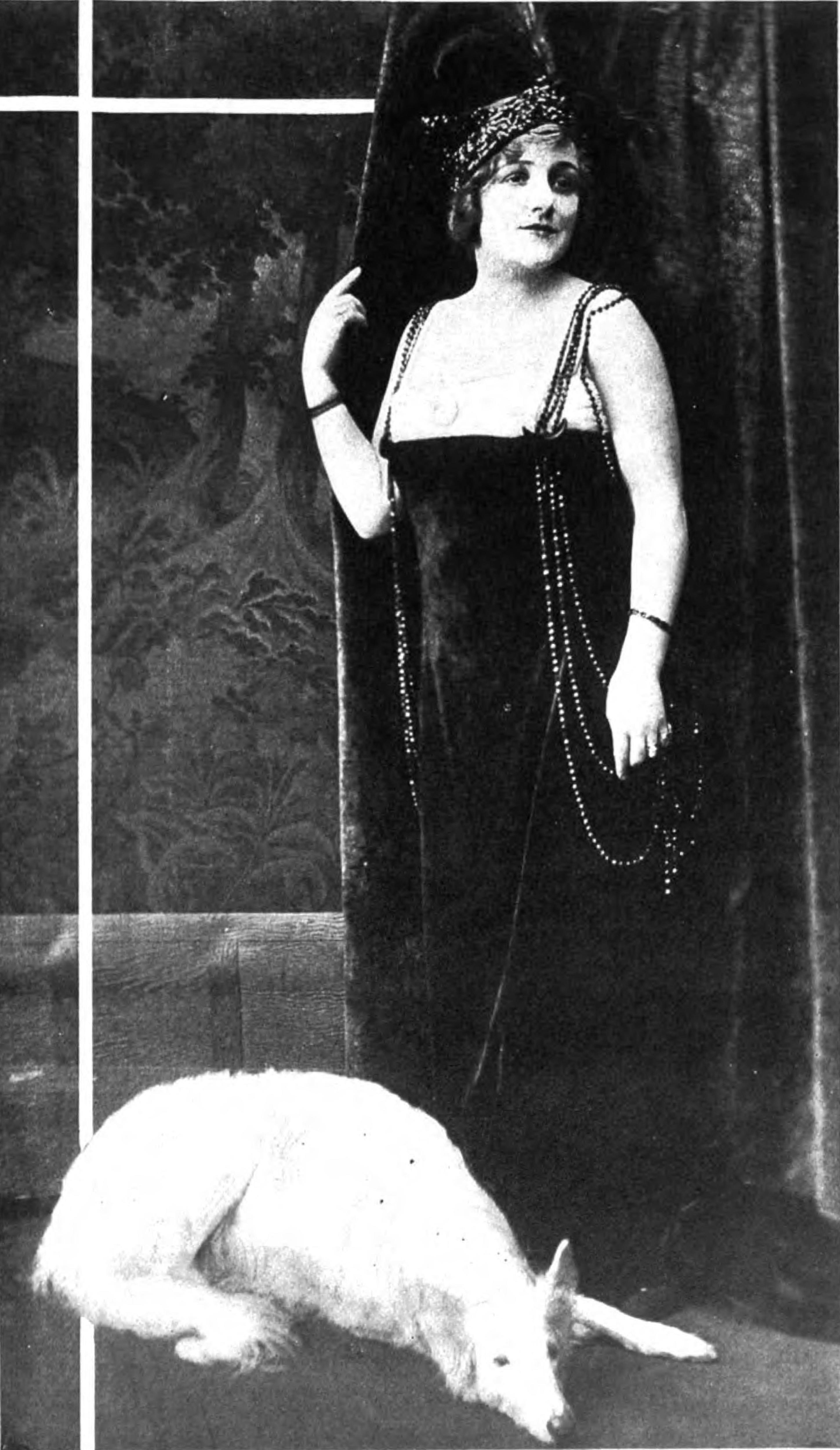 Lila Leslie (1 January 1890 – 8 September 1940) was a British actress of the silent era.